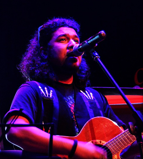 Singer Composer Papon (aka) Angaraag Mahanta from Assam. অসমীয়া: অংগৰাগ মহন্ত (পাপন), অসমৰ প্ৰসিদ্ধ সংগীতশিল্পী